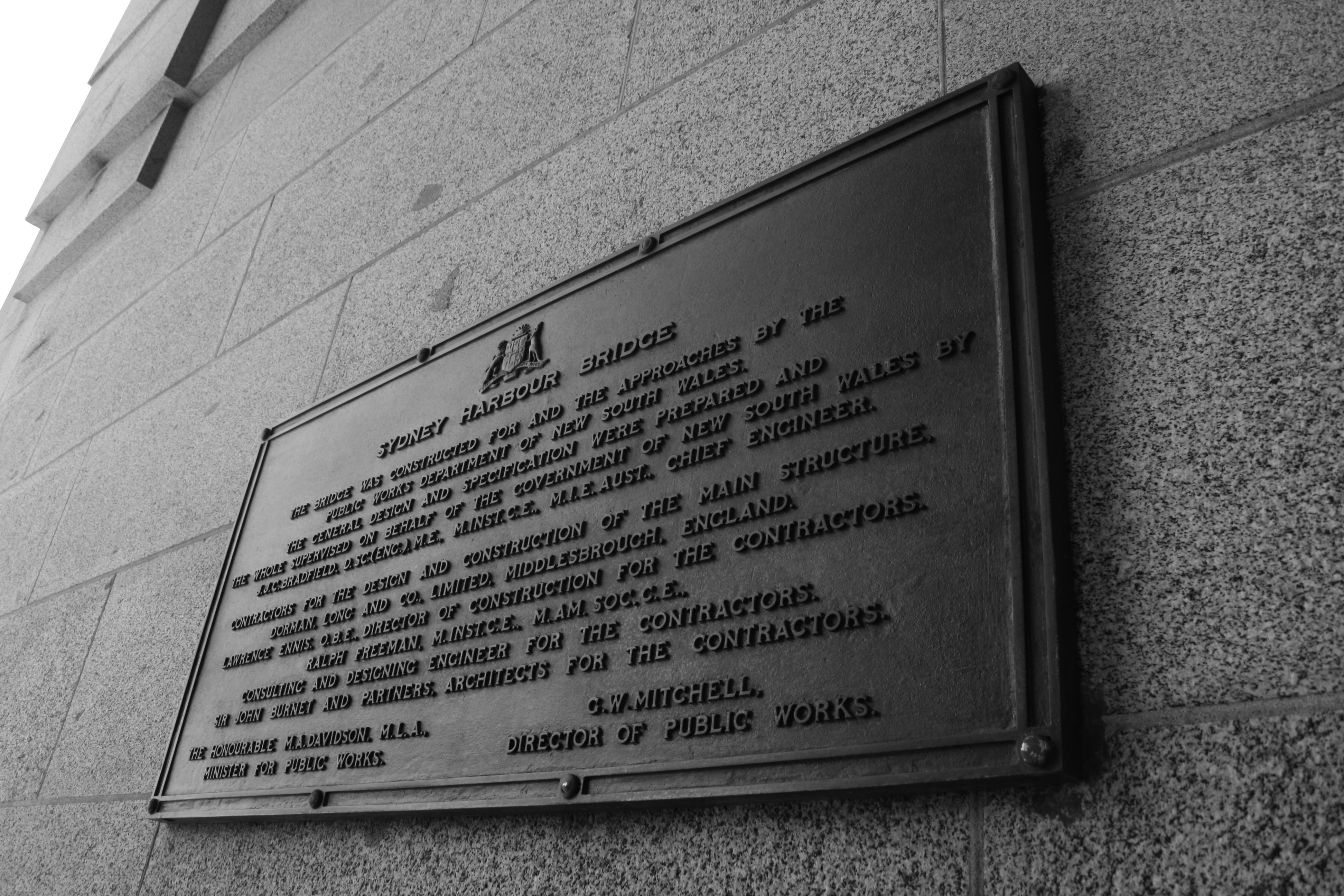 A plaque commemorating the constrcution of Sydney harbour Bridge listing the architects, engineers etc. Mounted by the Public Works Deptartment of New South Wales